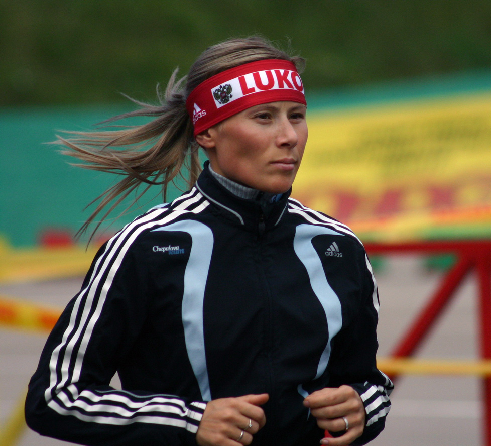 Julia Tchepalova